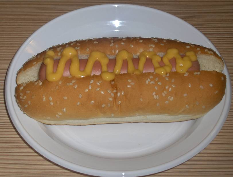 Hot Dog Roll SINGA GOODy